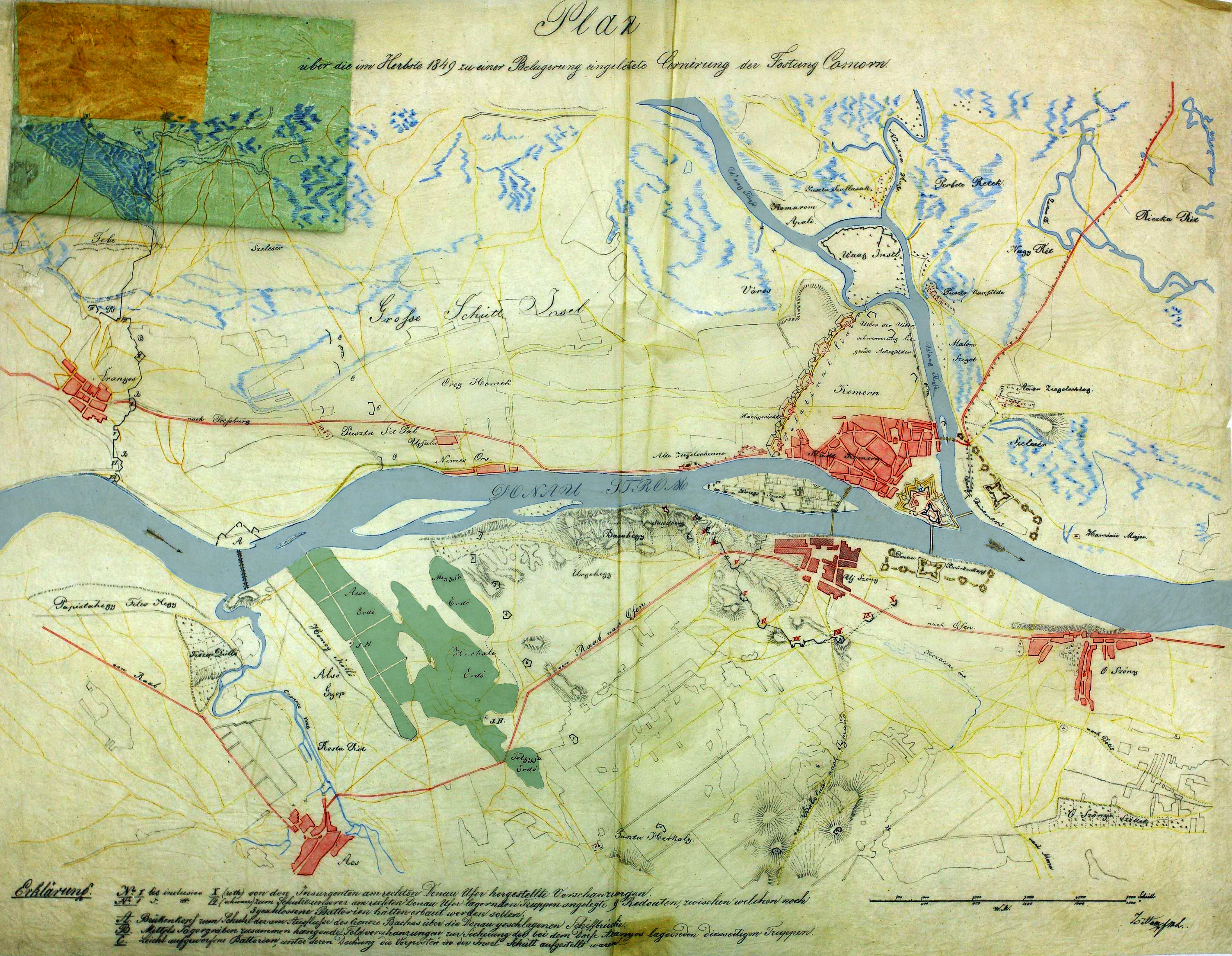 Map of the city of Komárom and its fortifications during the Hungarian Freedom War of 1848-1849